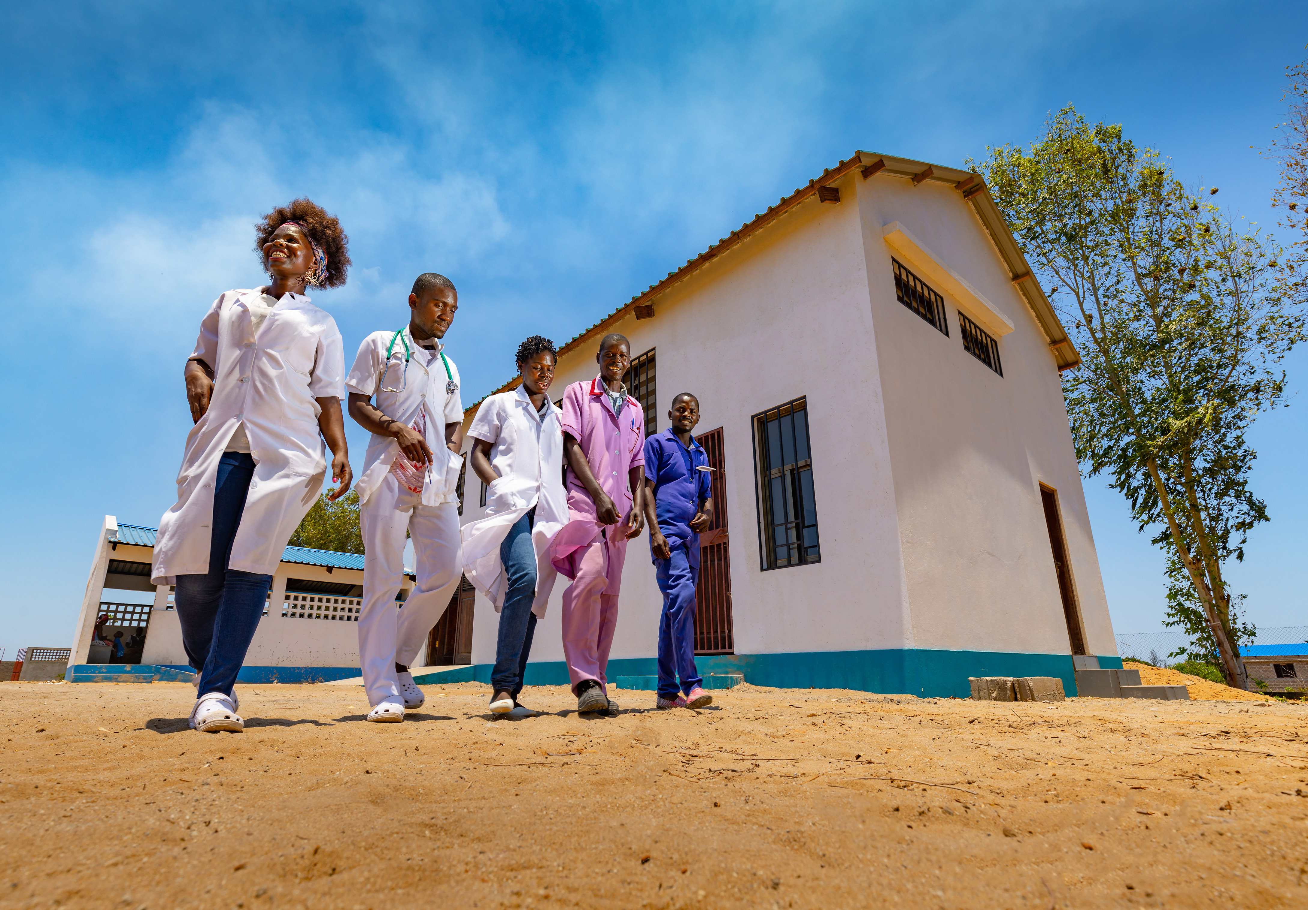 Clinic constructed under the KMAD scheme